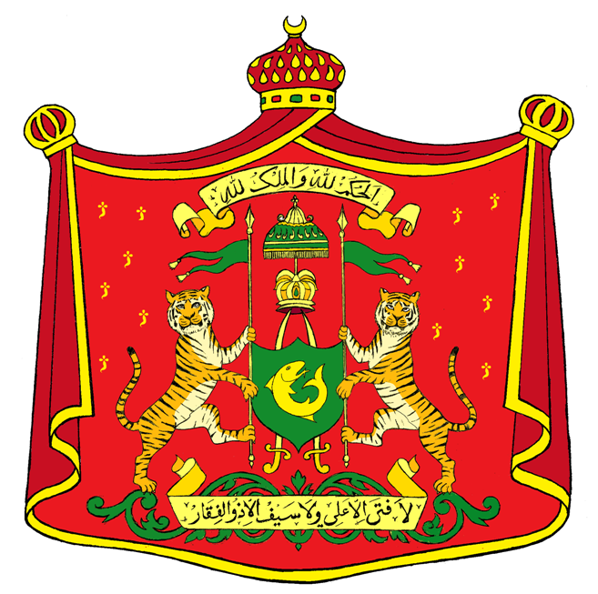 Rampur State Coat of Arms This work is in the public domain in India because its term of copyright has expired. The Indian Copyright Act applies in India, to works first published in India. According to The Indian Copyright Act, 1957 (Chapter V Section 25), Anonymous works, photographs, cinematographic works, sound recordings, government works, and works of corporate authorship or of international organizations enter the public domain 60 years after the date on which they were first published, counted from the beginning of the following calendar year (ie. as of 2020, works published prior to 1 January 1960 are considered public domain). Posthumous works (other than those above) enter the public domain after 60 years from publication date. Any other kind of work enters the public domain 60 years after the author's death. Text of laws, judicial opinions, and other government reports are free from copyright. Photographs created before 1960 are in the public domain 50 years after creation, as per the Copyright Act 1911. This file may not be in the public domain outside India. The creator and year of publication are essential information and must be provided. See Wikipedia:Public domain and Wikipedia:Copyrights for more details. This image shows a flag, a coat of arms, a seal or some other official insignia. The use of such symbols is restricted in many countries. These restrictions are independent of the copyright status.